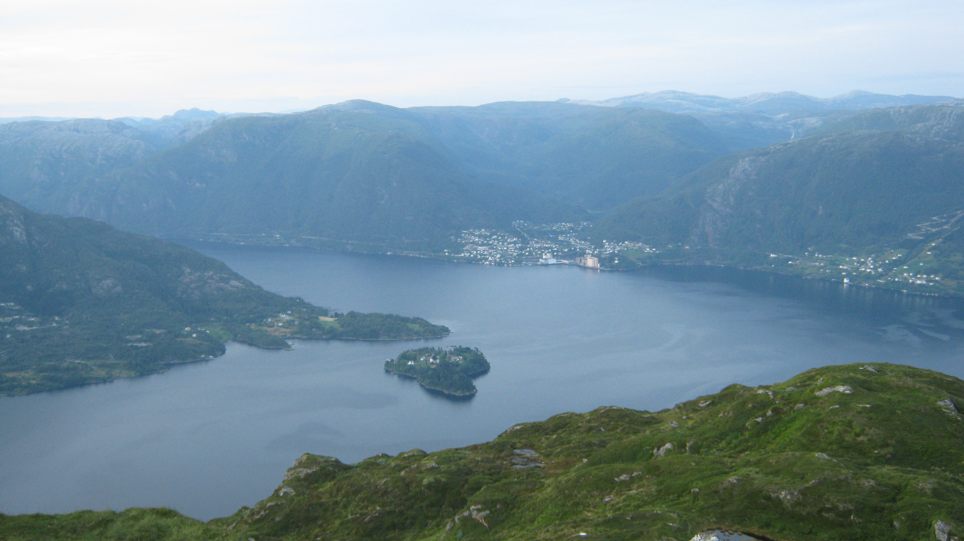 Vaksdal village, seen from Hananipa mountain. At left, a portion of the island Osterøy. In the center, the small island Olsnesøyna